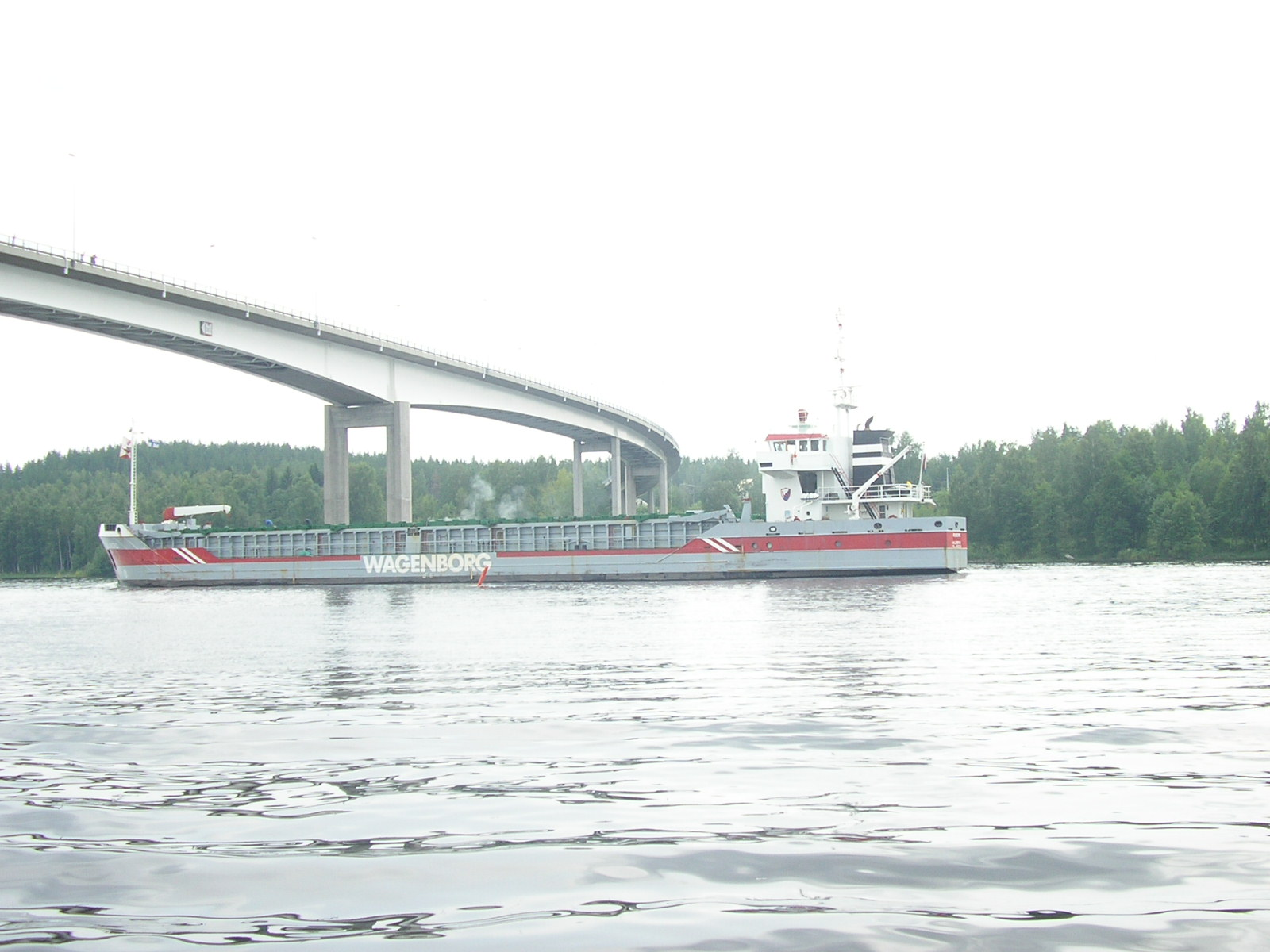 Rijnborg of Wagenborg shipping company passing under Saimaa Bridge in Puumala, Finland